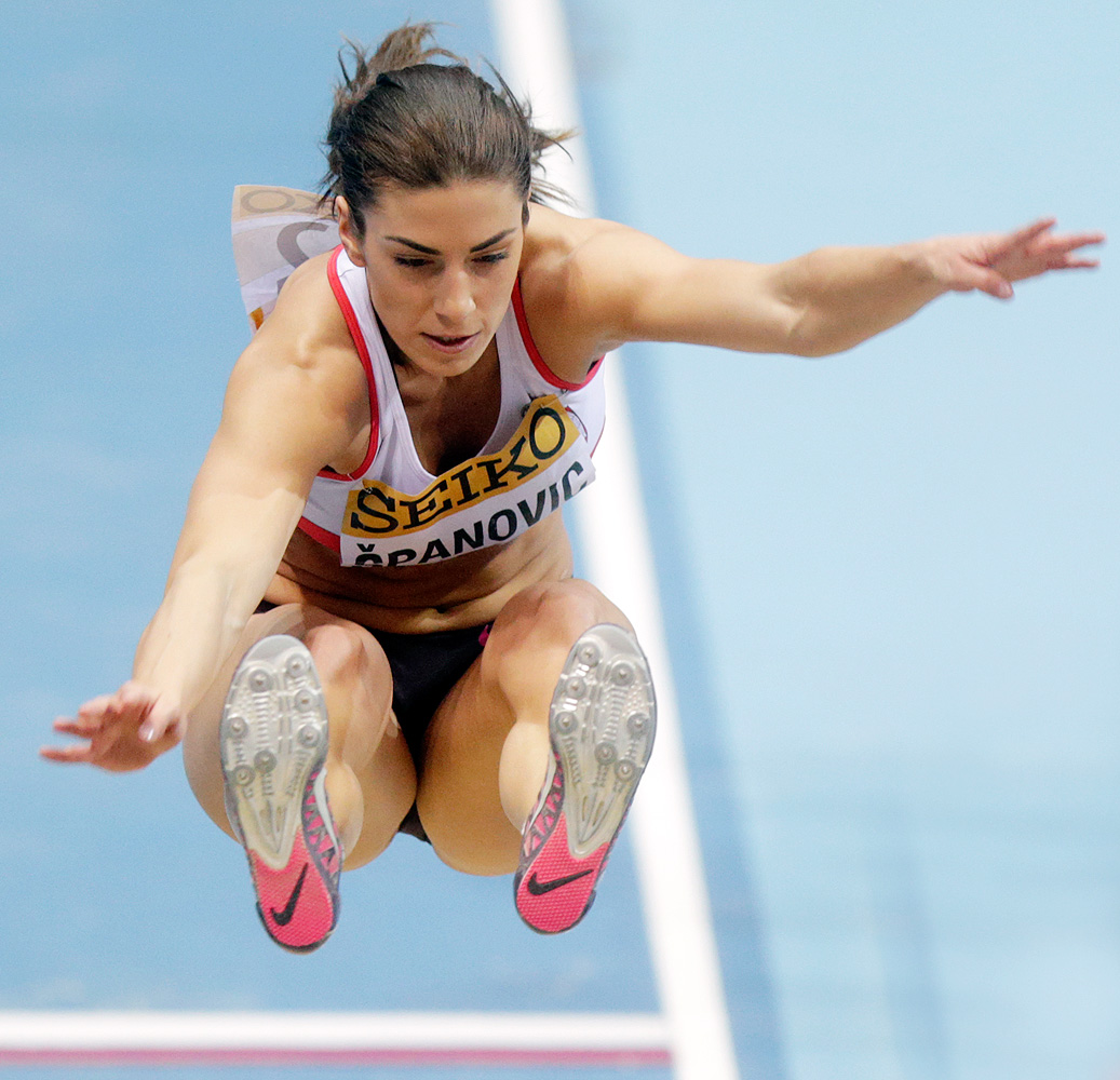 Ivana Spanovic in 2014 IAAF World Indoor Championships